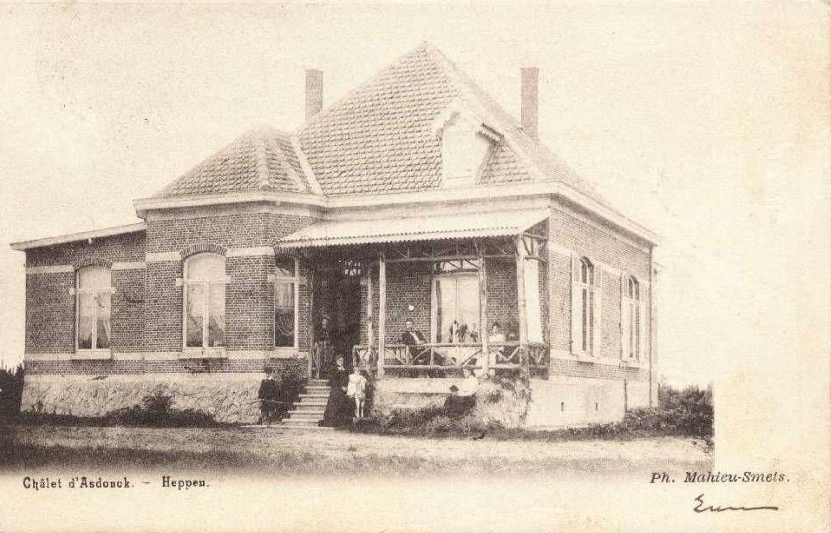 Picture in black and white of Chalet d' Asdonck villa in Leopoldsburg Belgium